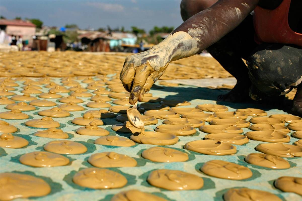 Haitian Dirt Biscuits (mud biscuit / bonbon terre / dirt cookie)